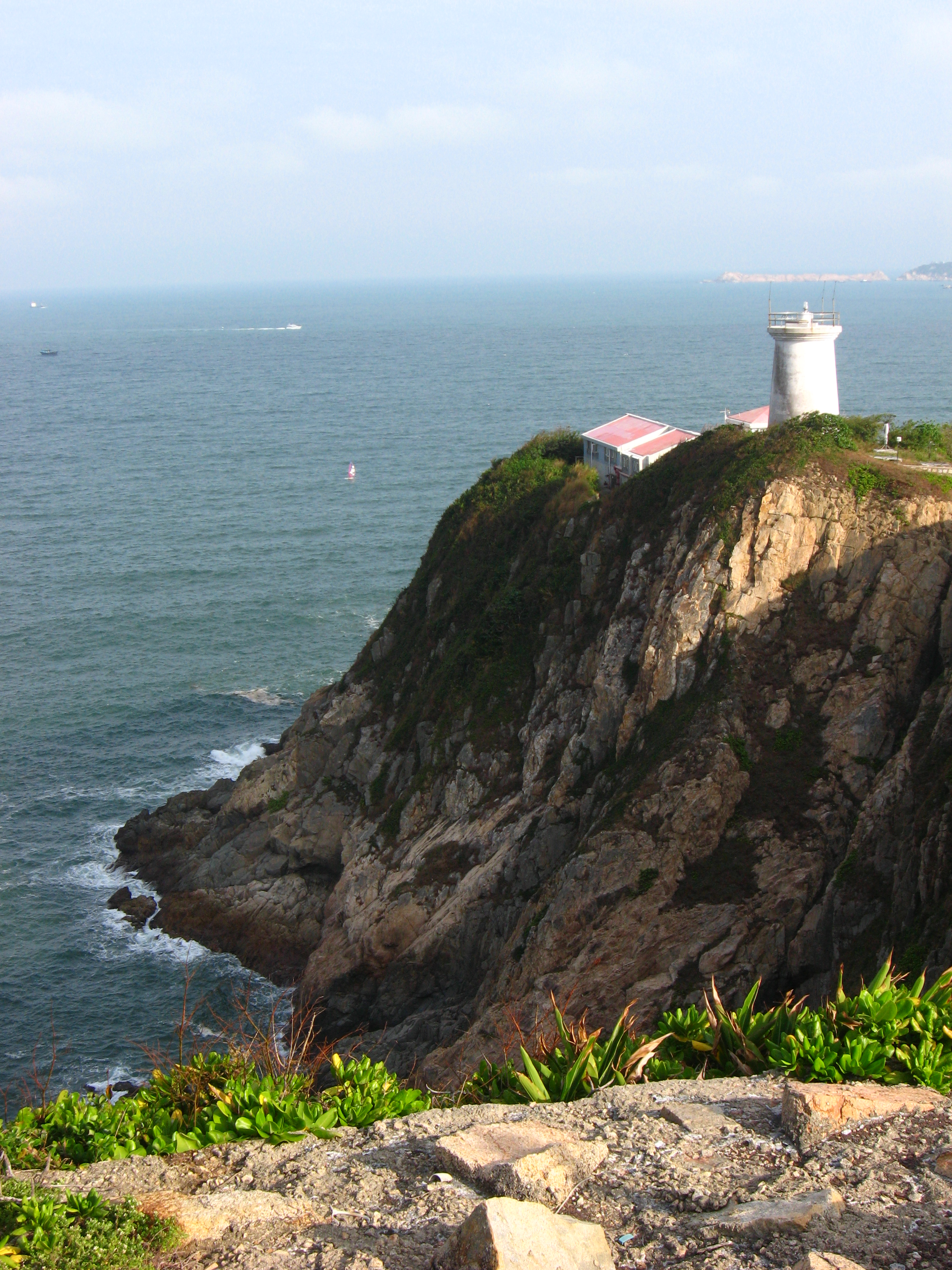 Cape D'Aguilar Lighthouse (Hong Kong)